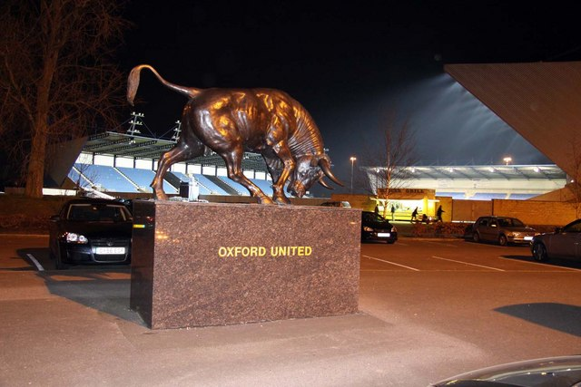 The Ox statue at the Kassam Stadium, near to Littlemore, Oxfordshire, Great Britain.